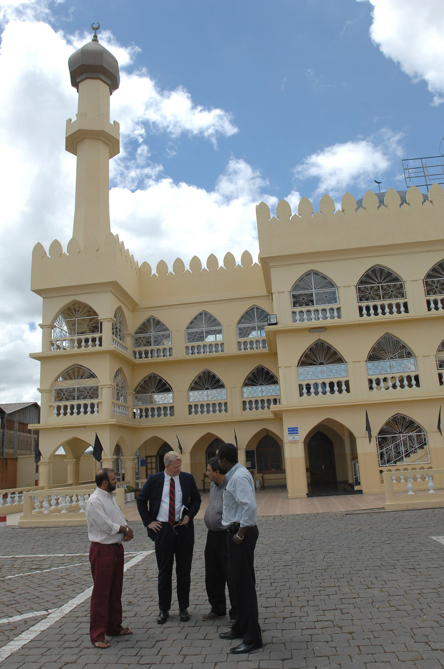 ANTANANARIVO, Madagascar (March 20, 2007) - Chaplain (Cmdr.) W.M. Sonny Dinkins talks with leaders of the Islamic Grand Mosque in Antananarivo during a trip to meet area religious leaders. U.S. Air Force photo by Tech. Sgt. Lee Harshman (RELEASED)